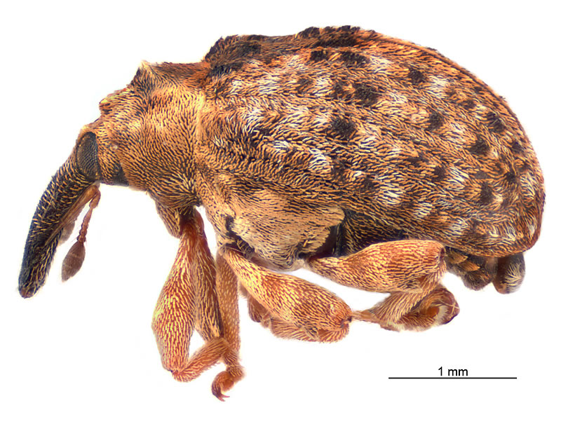 Lateral view of a specimen of Cleopus japonicus photographed by Landcare Research New Zealand Ltd.